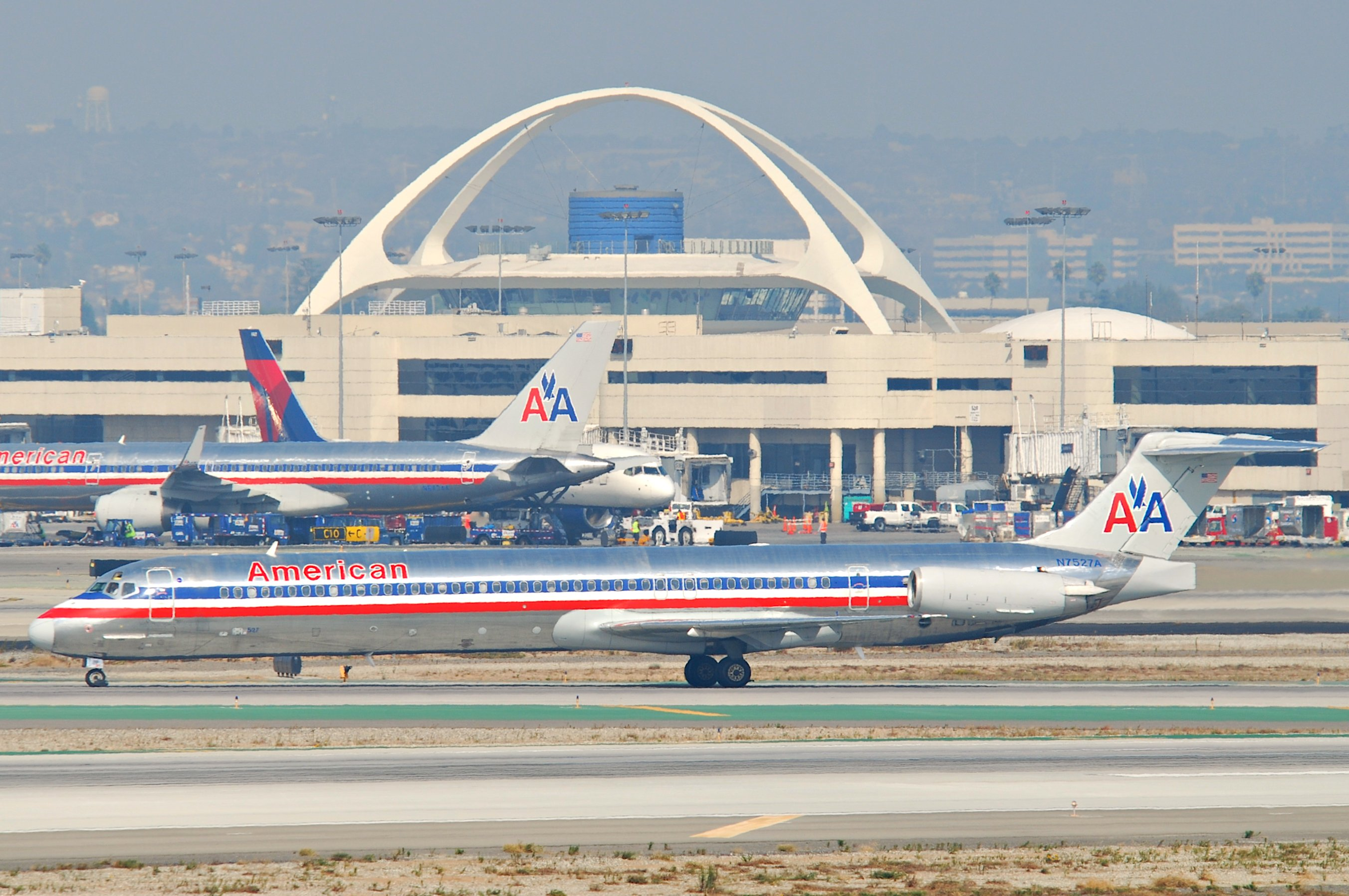 22/08/1990 American Airlines N7527A